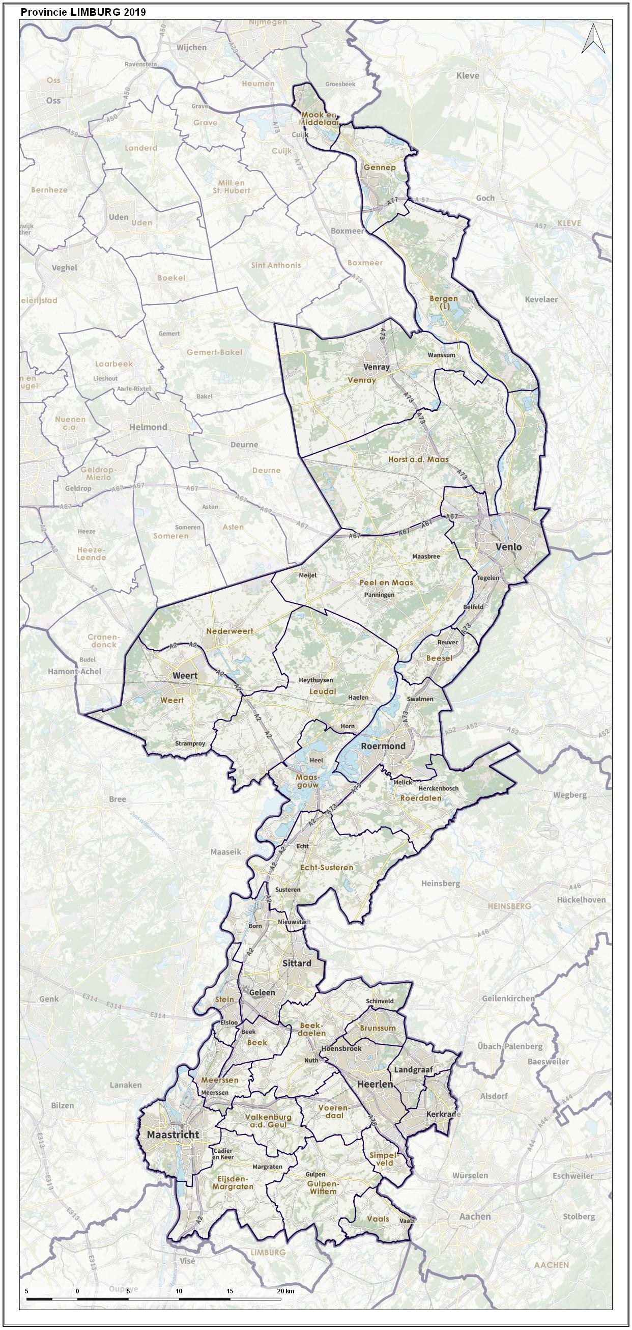 Overview map of the province, including municipal borders, largest places and major infrastructure.